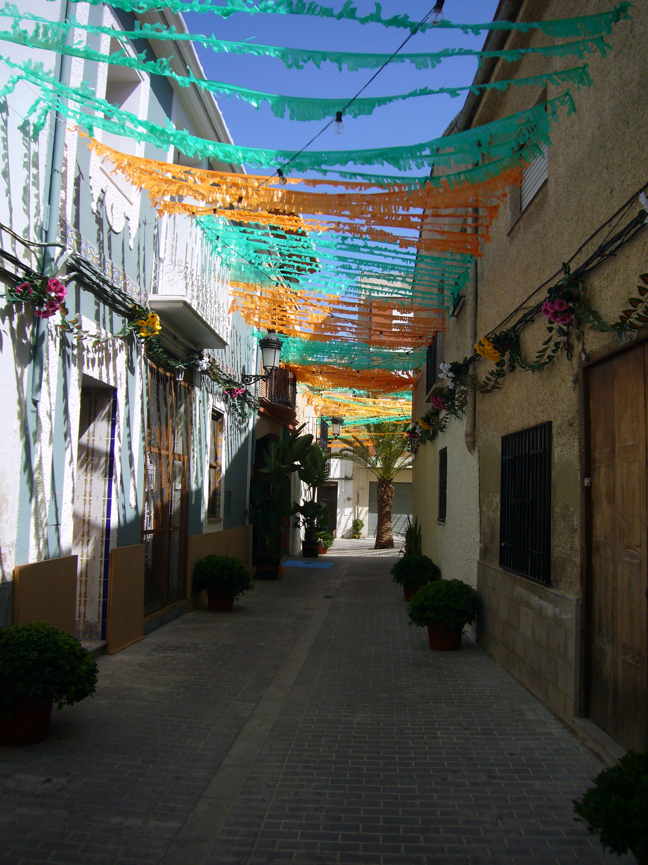 Typical street of the town of Bétera with the decoration of their festivals.